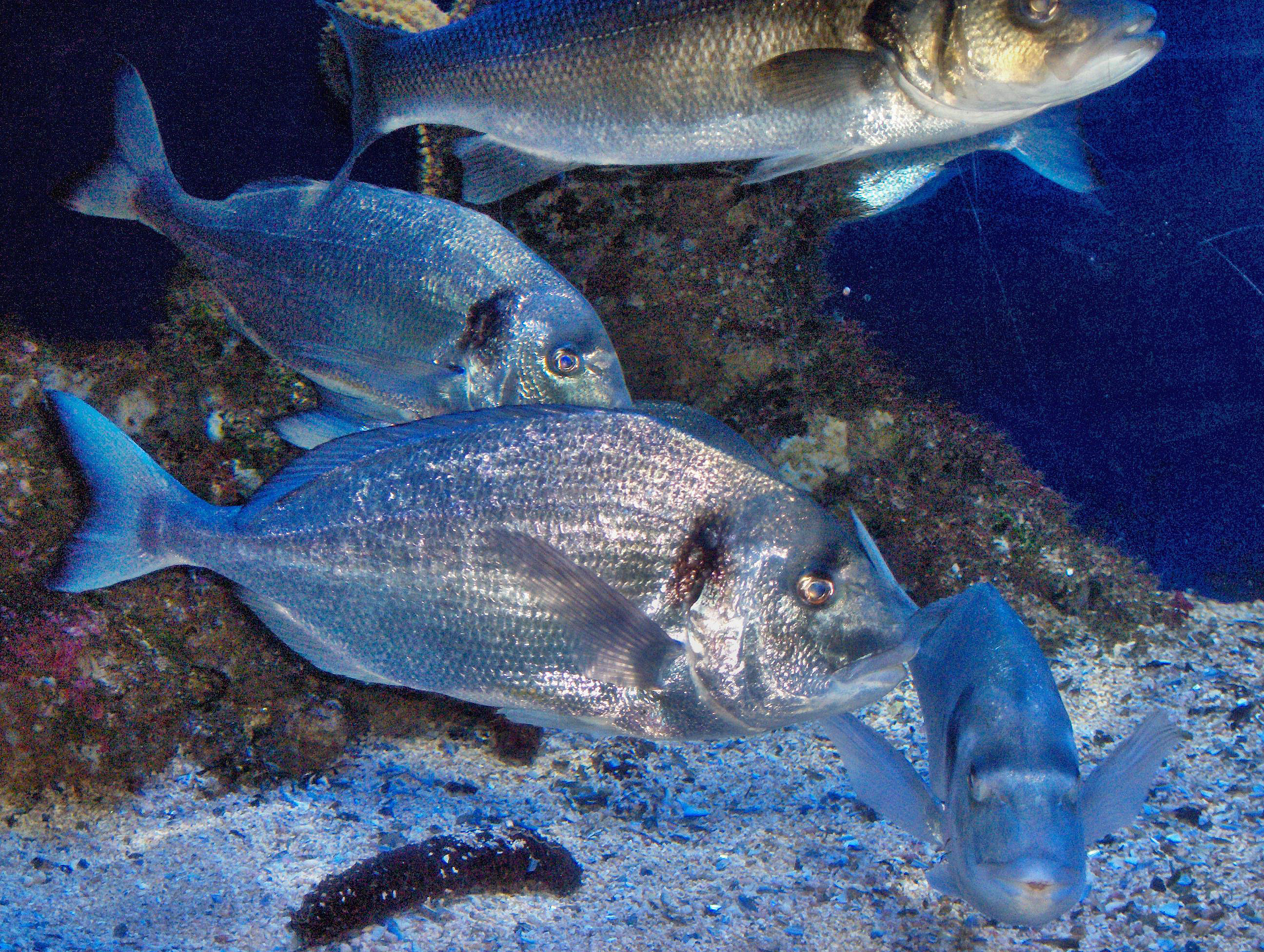 Red porgy (Pagrus pagrus); Musée Océanographique de Monaco